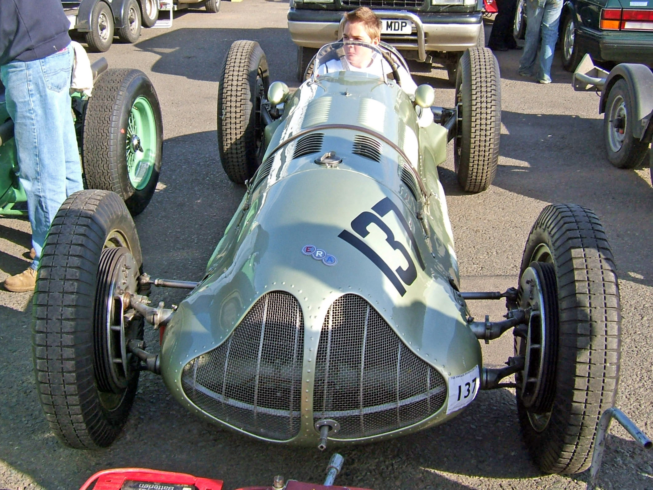 ERA E-type GP1 waiting in the paddock of the VSCC SeeRed race meeting, Donington Park, September 2007.